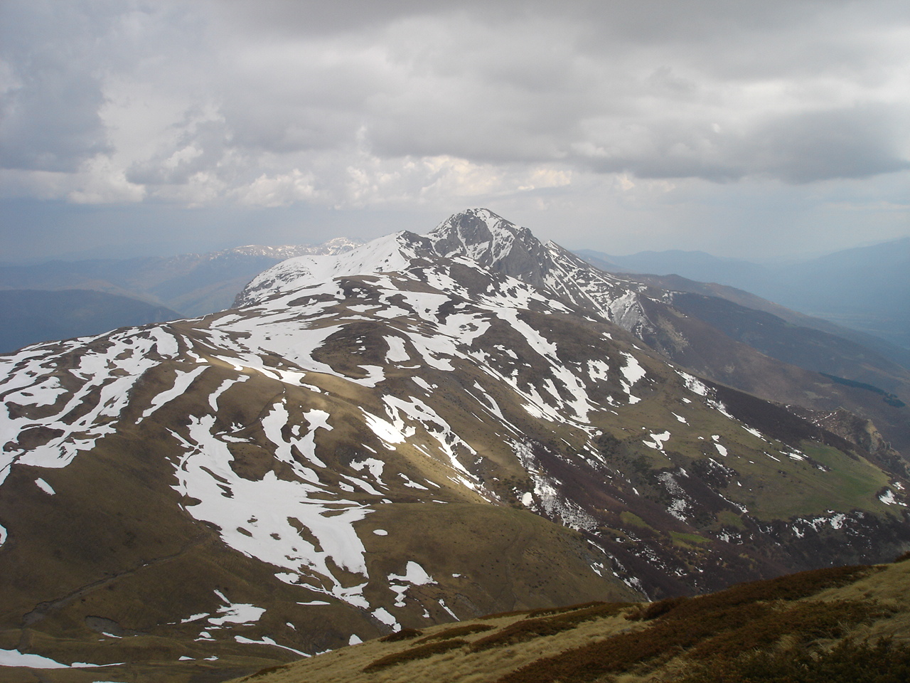 Krchin mountain, Macedonia